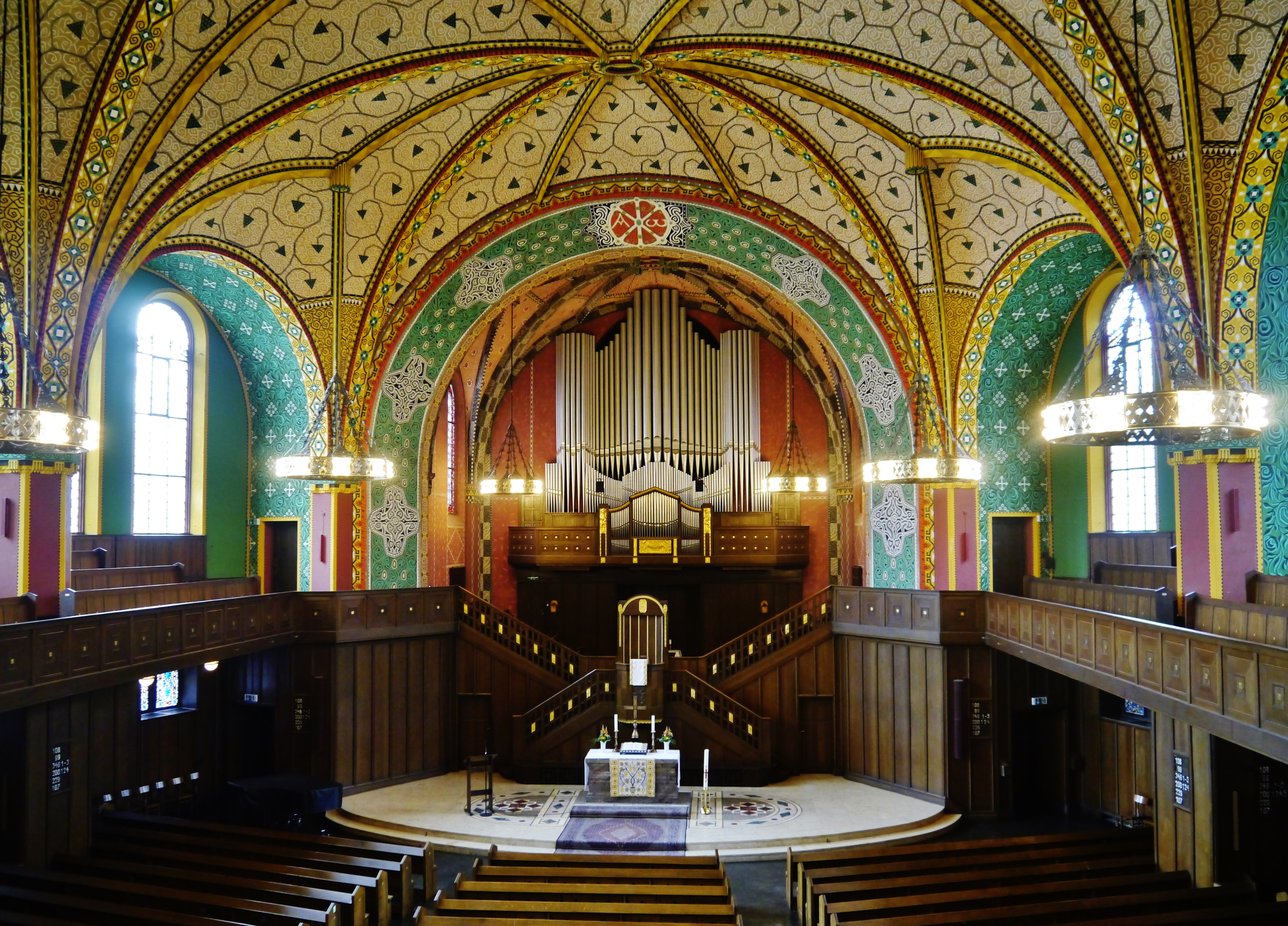 Nave of the Luther Church, Wiesbaden, Hesse, Germany